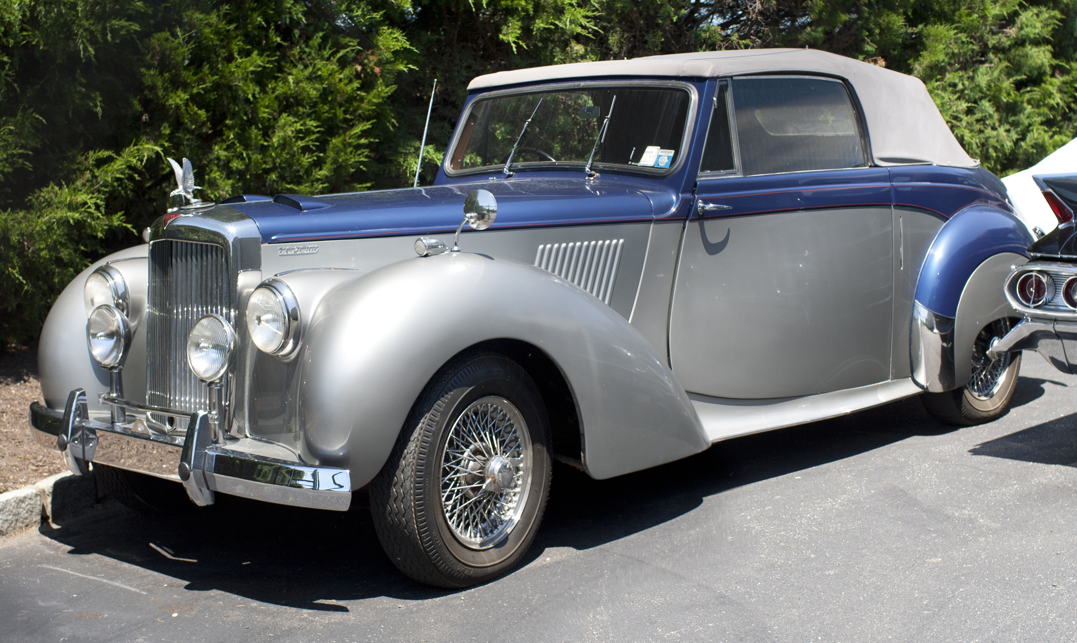 1955 Alvis TC21/100 Tickford Convertible. Chassis number 25755. Stitched two photos together, as they were taken through a fine-mesh fence.